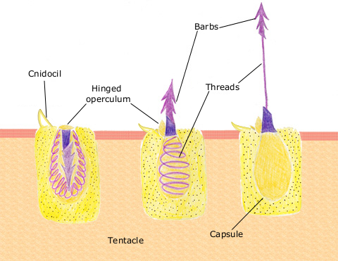 The diagram above shows the anatomy of a nematocyst cell and its “firing” sequence, from left to right. On the far left is a nematocyst inside its cellular capsule. The cell’s thread is coiled under pressure and wrapped around a stinging barb. When potential prey makes contact with the tentacles of a polyp, the nematocyst cell is stimulated. This causes a flap of tissue covering the nematocyst—the operculum—to fly open. The middle image shows the open operculum, the rapidly uncoiling thread and the emerging barb. On the far right is the fully extended cell. The barbs at the end of the nematocyst are designed to stick into the polyp’s victim and inject a poisonous liquid. When subdued, the polyp’s tentacles move the prey toward its mouth and the nematocysts recoil back into their capsules.